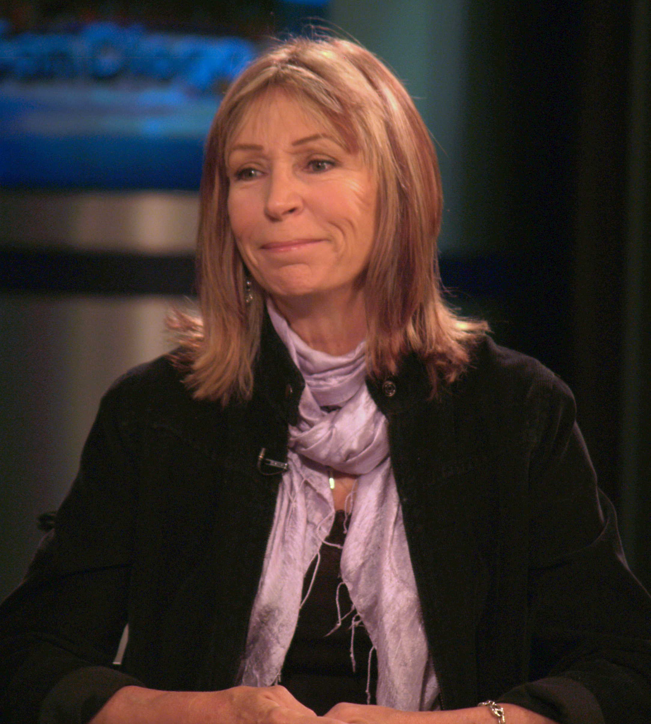 Photo of Grammy winning singer Juice Newton in San Diego (where she lives) in 2009. Please acknowledge "Phil Konstantin" as the creator of this photograph.